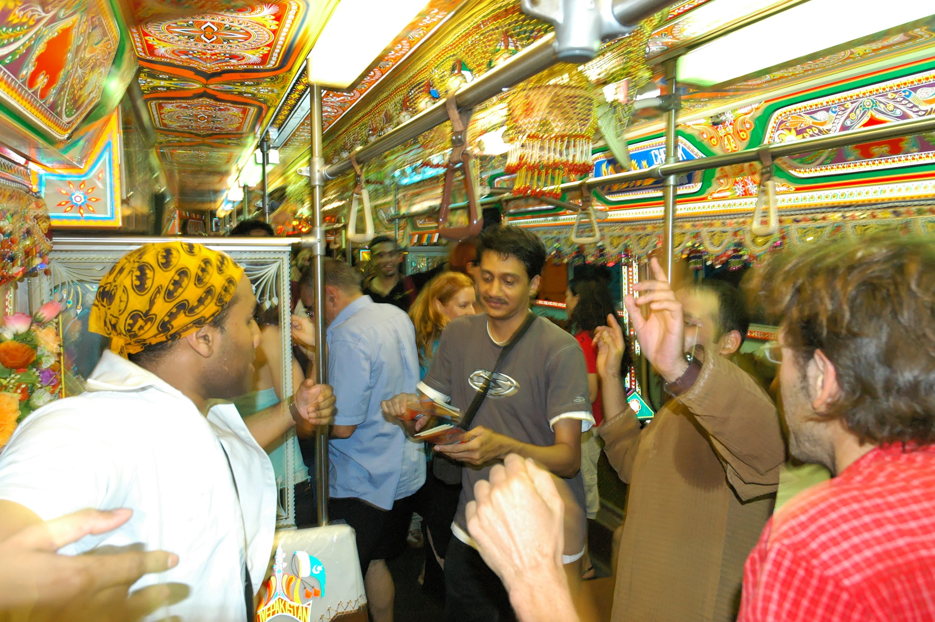 Tram Z1.81 - the 'Karachi tram' Original caption: It seems every Melbourne Flickrite has Karachi Tram photos, so I thought I should join in. Taken on the tram's final journey. It was seriously rocking - a dancefloor on wheels, with energetic Indian grooves.